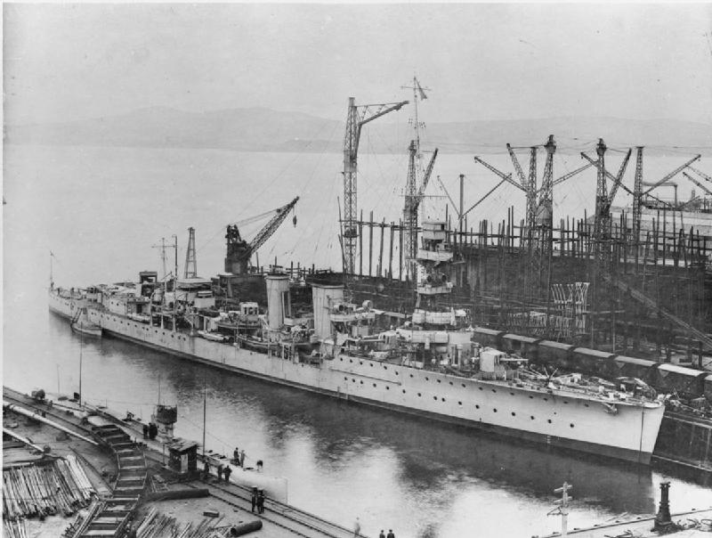 British light cruiser HMS CARADOC fitting out at Scotts, Greenock Yard. Submarine G.14 in the foreground